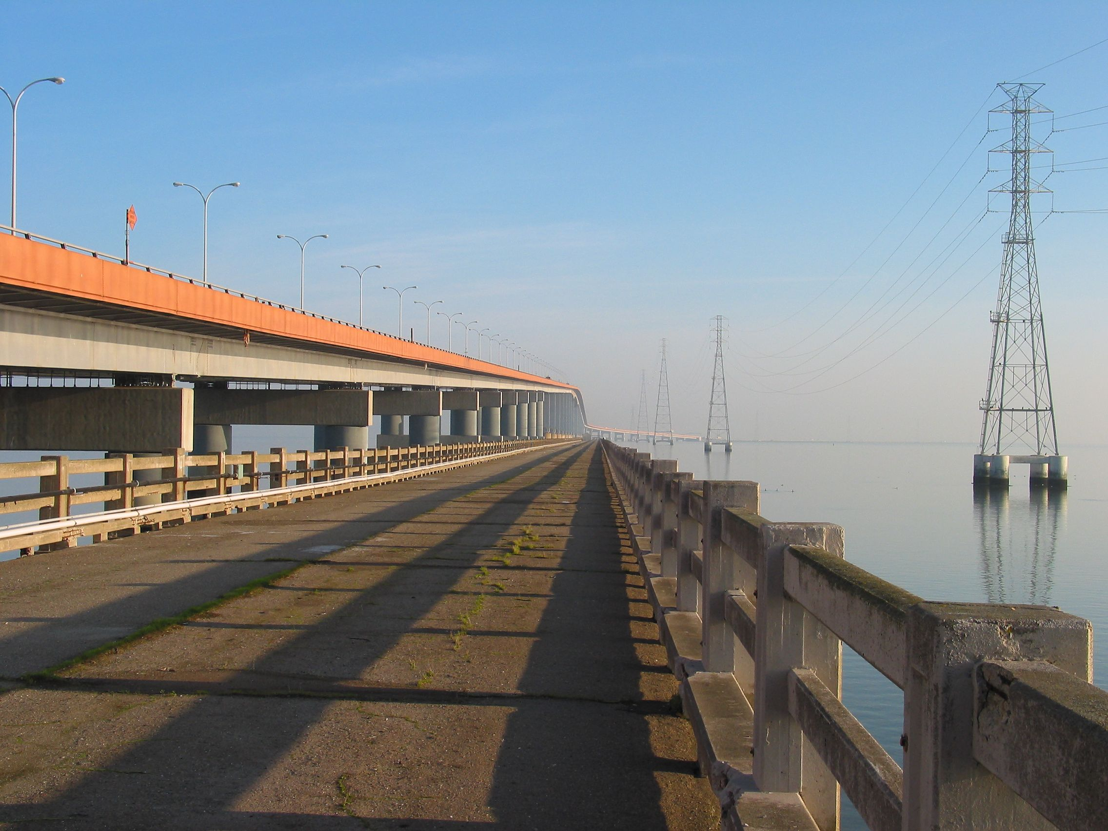 The San Mateo County Fishing Pier and the San Mateo Bridge (left), in Foster City, California. The fishing pier is actually the old San Mateo/Hayward bridge, built in 1929 and retired in 1967. It's been closed for a couple years, pending restoration for safety and security concerns.